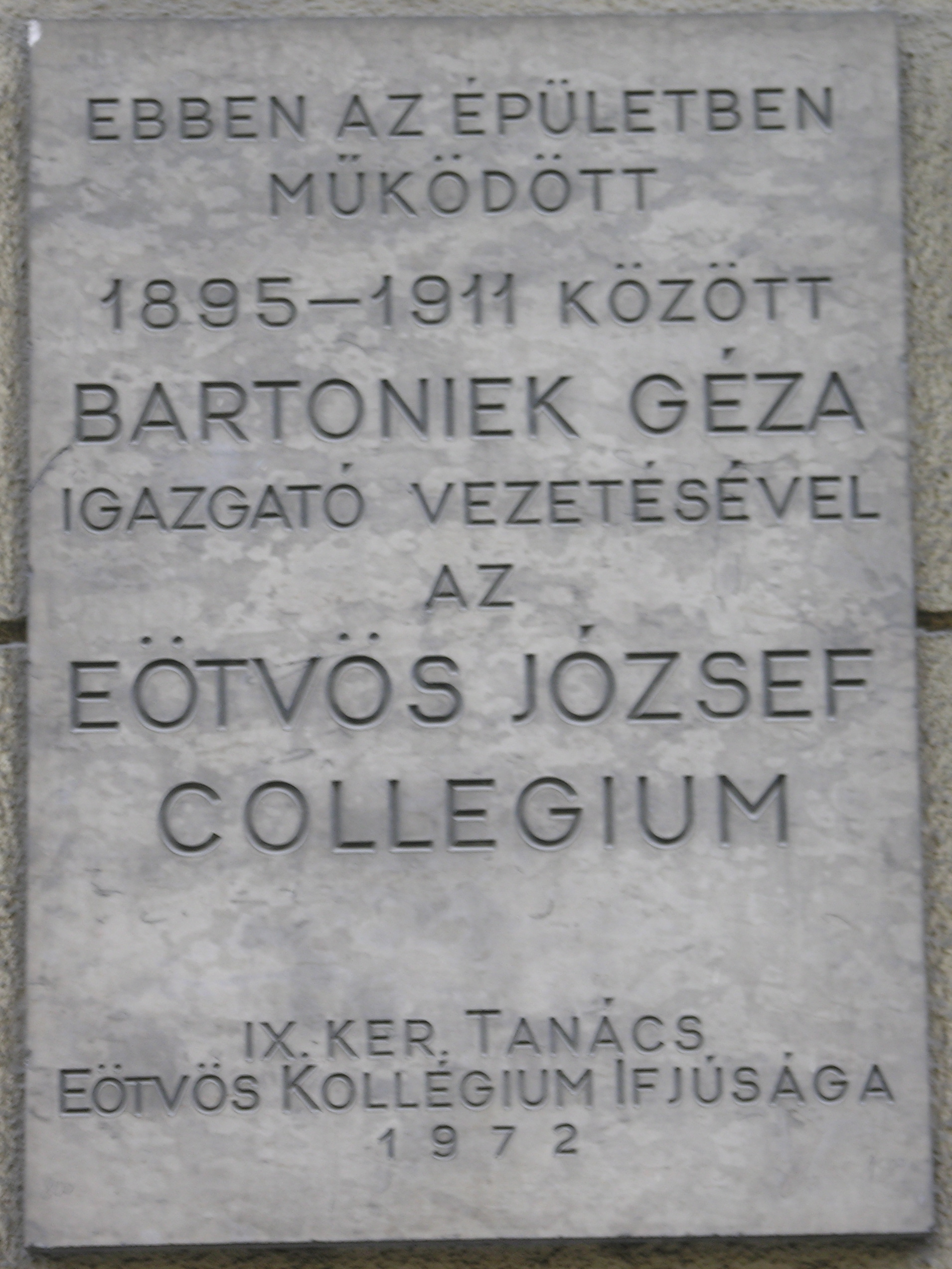 Commemorative plaque of Géza Bartoniek and the Eötvös József Collegium in Budapest District IX, Gönczy Pál Street No 2